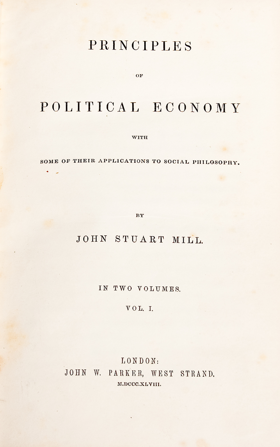 John Stuart Mill, Principles of Political Economy with some of their Applications to Social Philosophy, London, 1848